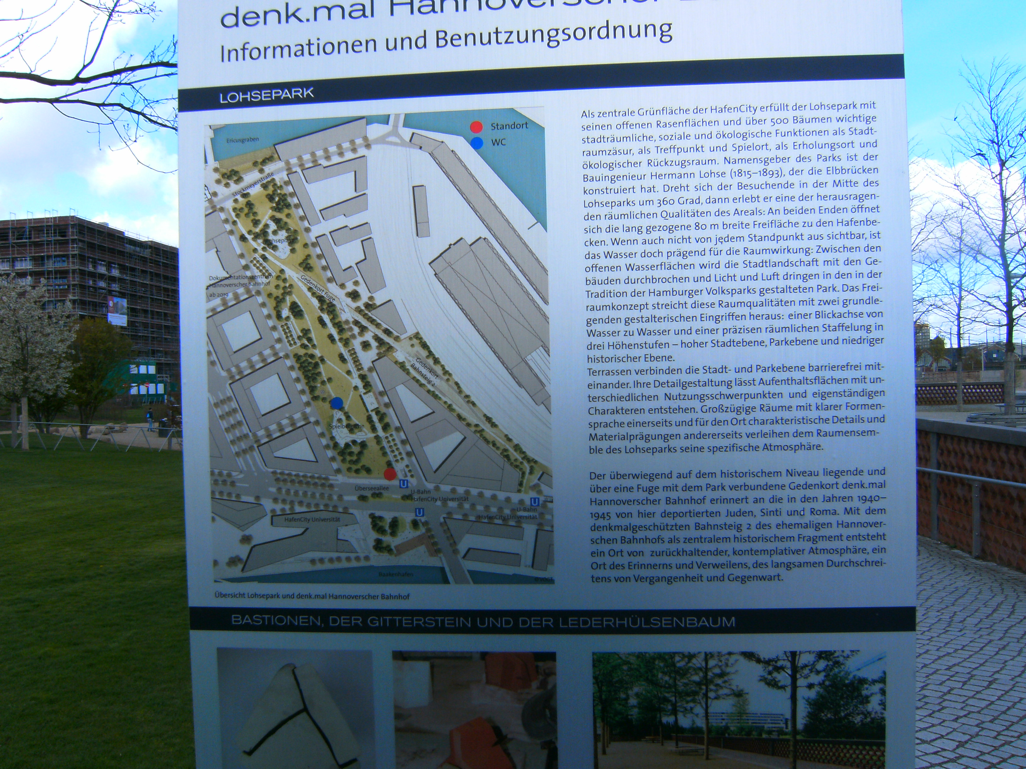 Lohsepark in the HafenCity of Hamburg, Germany: Map with informations.